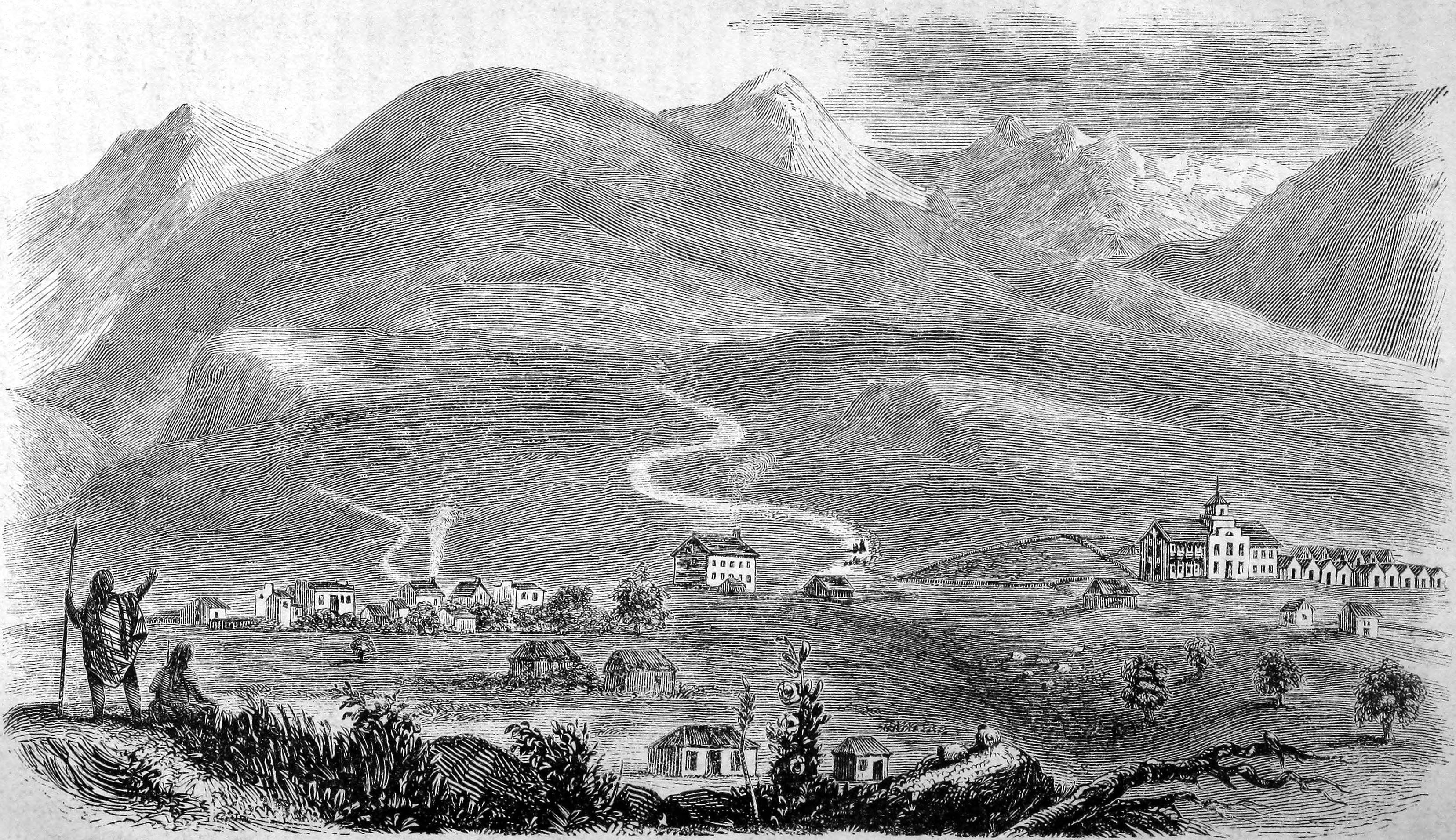 The Mission Seminary at Lahainaluna on Maui in the 1830s, from Hiram Bingham I's book A Residence of Twenty-one Years in the Sandwich Islands.